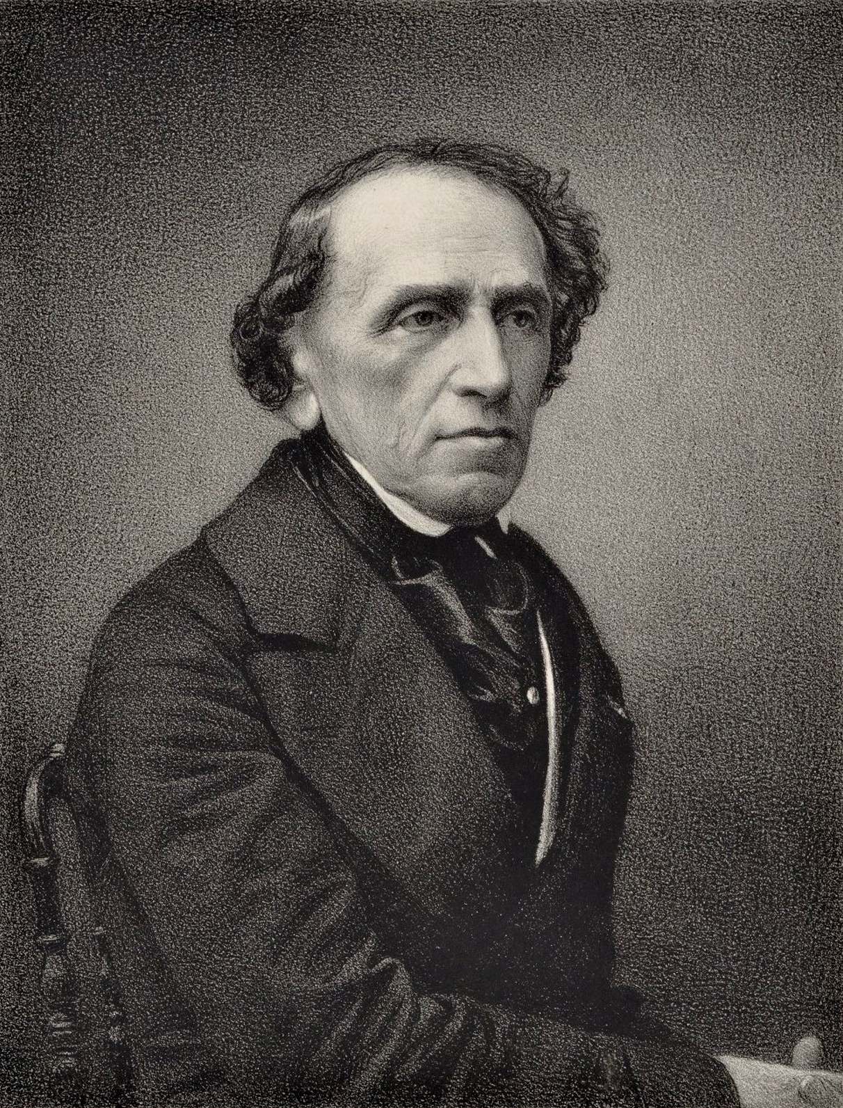 Giacomo Meyerbeer (1791-1864), German opera composer, engraving from a Pierre Petit'sphotograph. Cropped print.